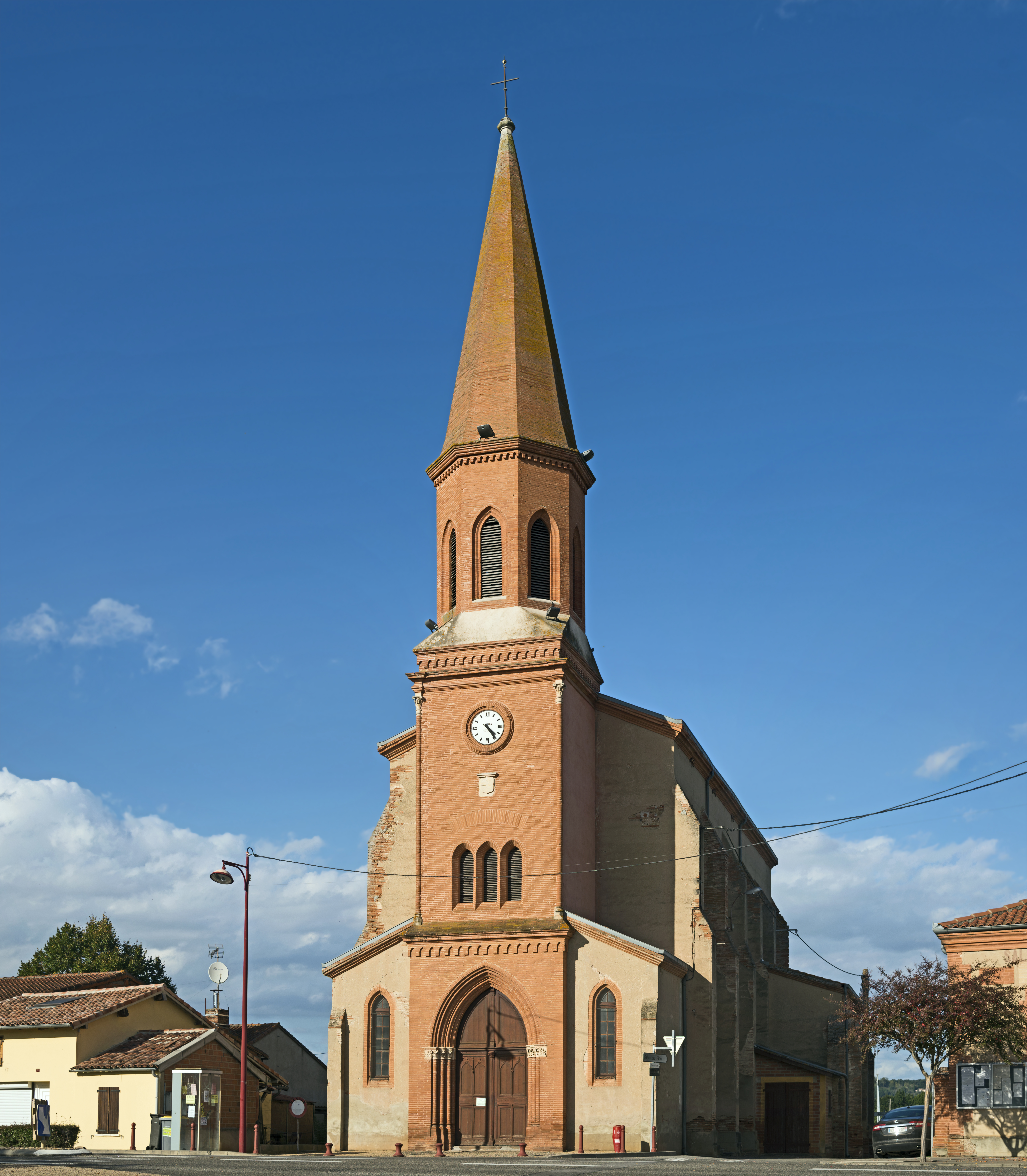 Orgueil, Tarn-et-Garonne. St Ferréol Church.